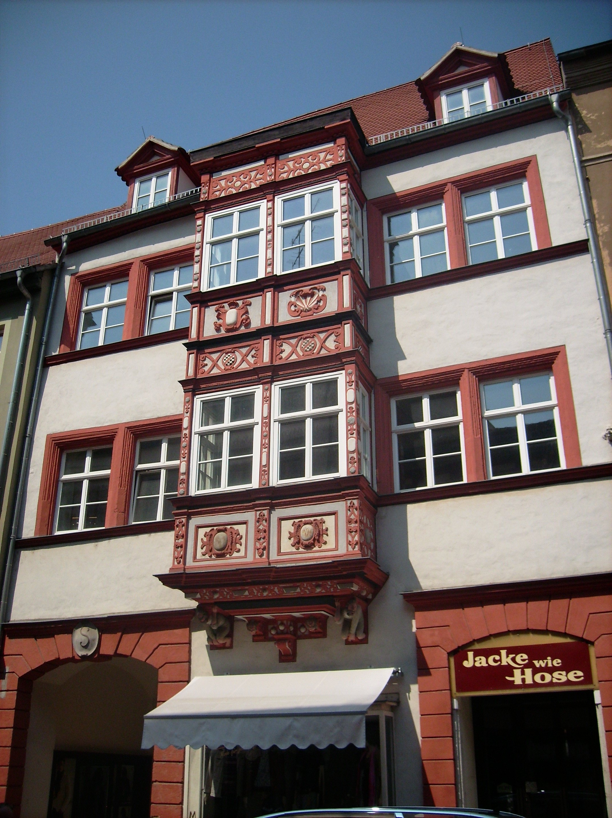 Bay window at No. 32, Jakobstrasse in Naumburg (district of Burgenlandkreis, Saxony-Anhalt)